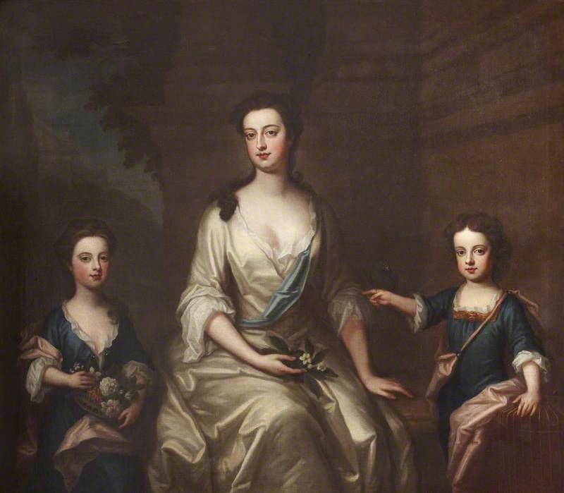 Elizabeth Felton (1676–1741), Countess of Bristol, with Her Children Lady Henrietta Hervey (1703–1712), and Her Twin Brother Lord Charles Hervey (1703–1786)